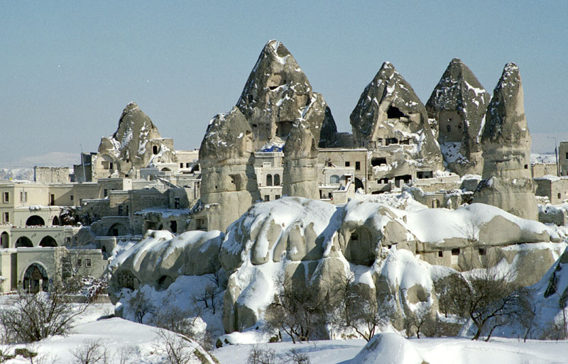 Göreme in winter.